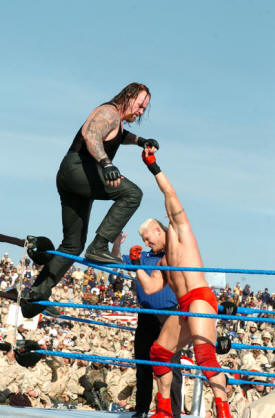 WWE wrestler "The Undertaker" gets ready to perform his "Old School" maneuver on fellow wrestler Heidenreich.